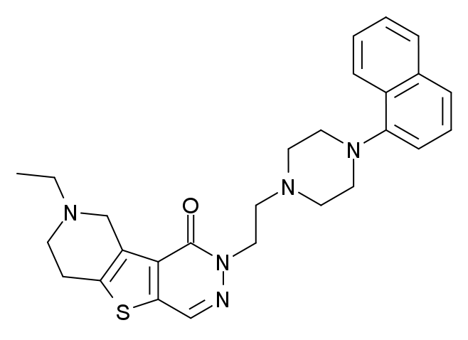 i drew this anyone can use it